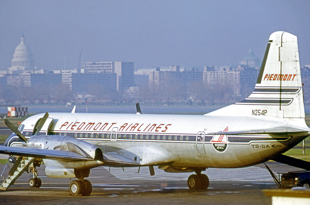 NAMC YS-11A N254P of Piedmont Airlines at Washington National Airport in 1972